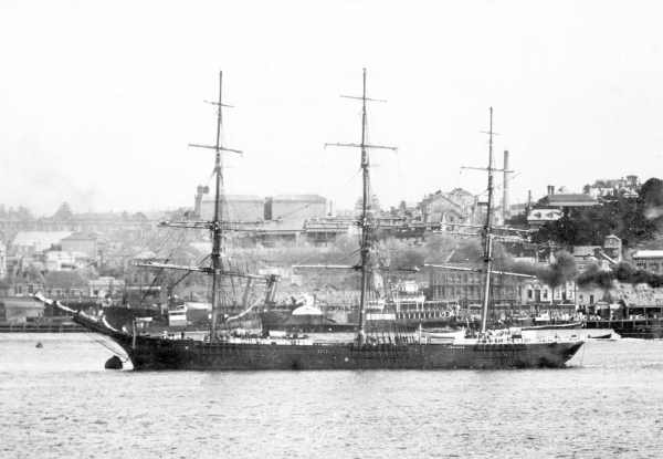 Creator: George Schultz. Blach and white photograph of Loch Laggan (as America). Item held by State Library of Victoria as part of the Malcolm Brodie shipping collection. Image number: H99.220/2359. Format: photograph gelatin silver ; 13.9 x 20.1 cm. Taken prior to 1886.